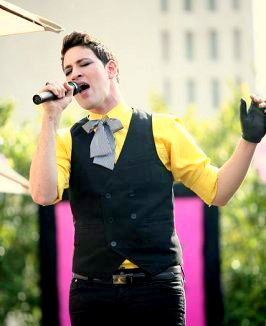 a photo taken at the fix show wher hovi proformd